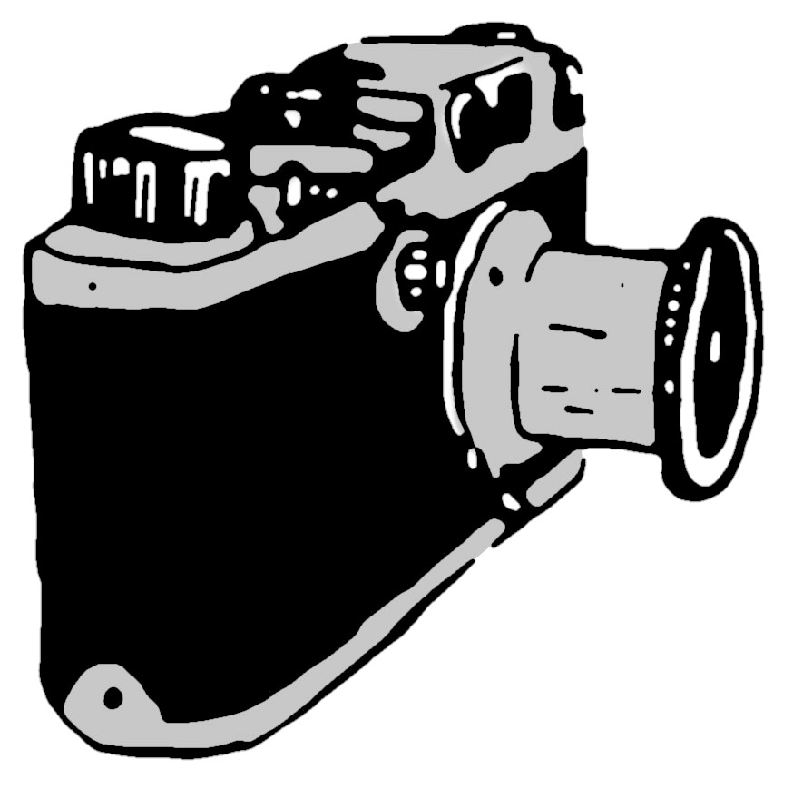 Logo of Kaakkois-Suomen valokuvakeskus ry, Lappeenranta, Finland